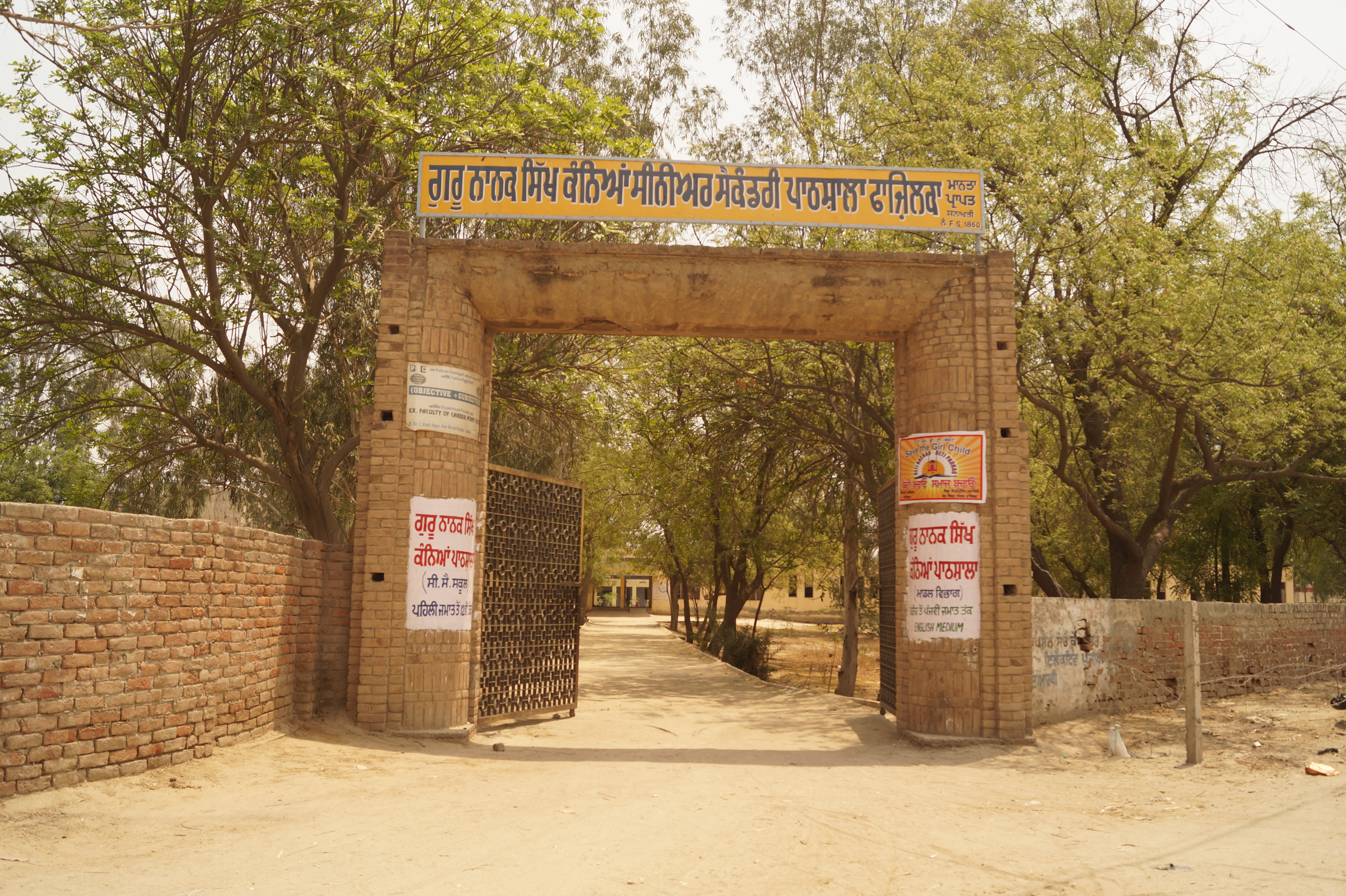 Guru Nanak Sikh senior secondary school Fazilka (Girls)